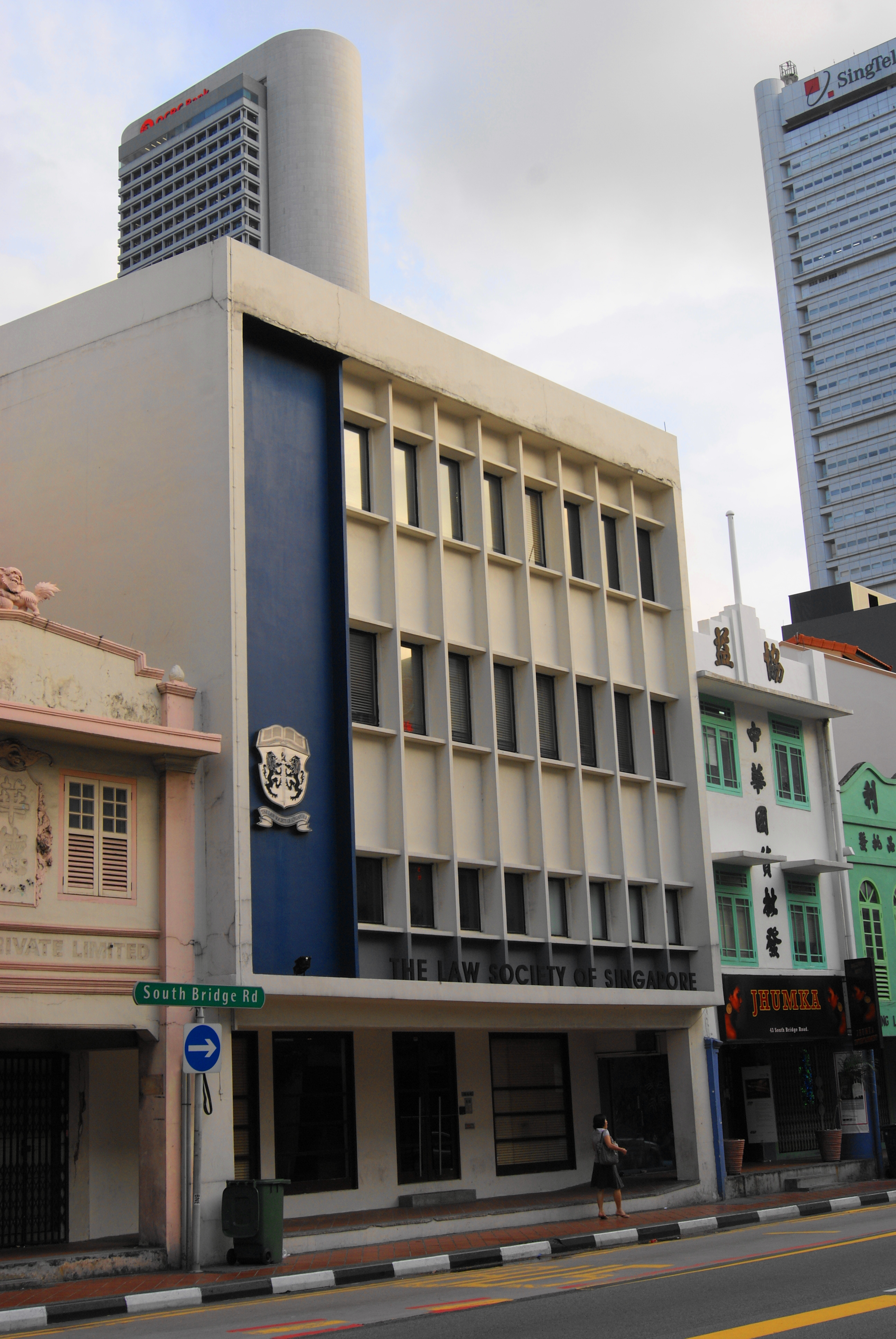 The headquarters of the Law Society of Singapore at 39 South Bridge Road, Singapore 058673.